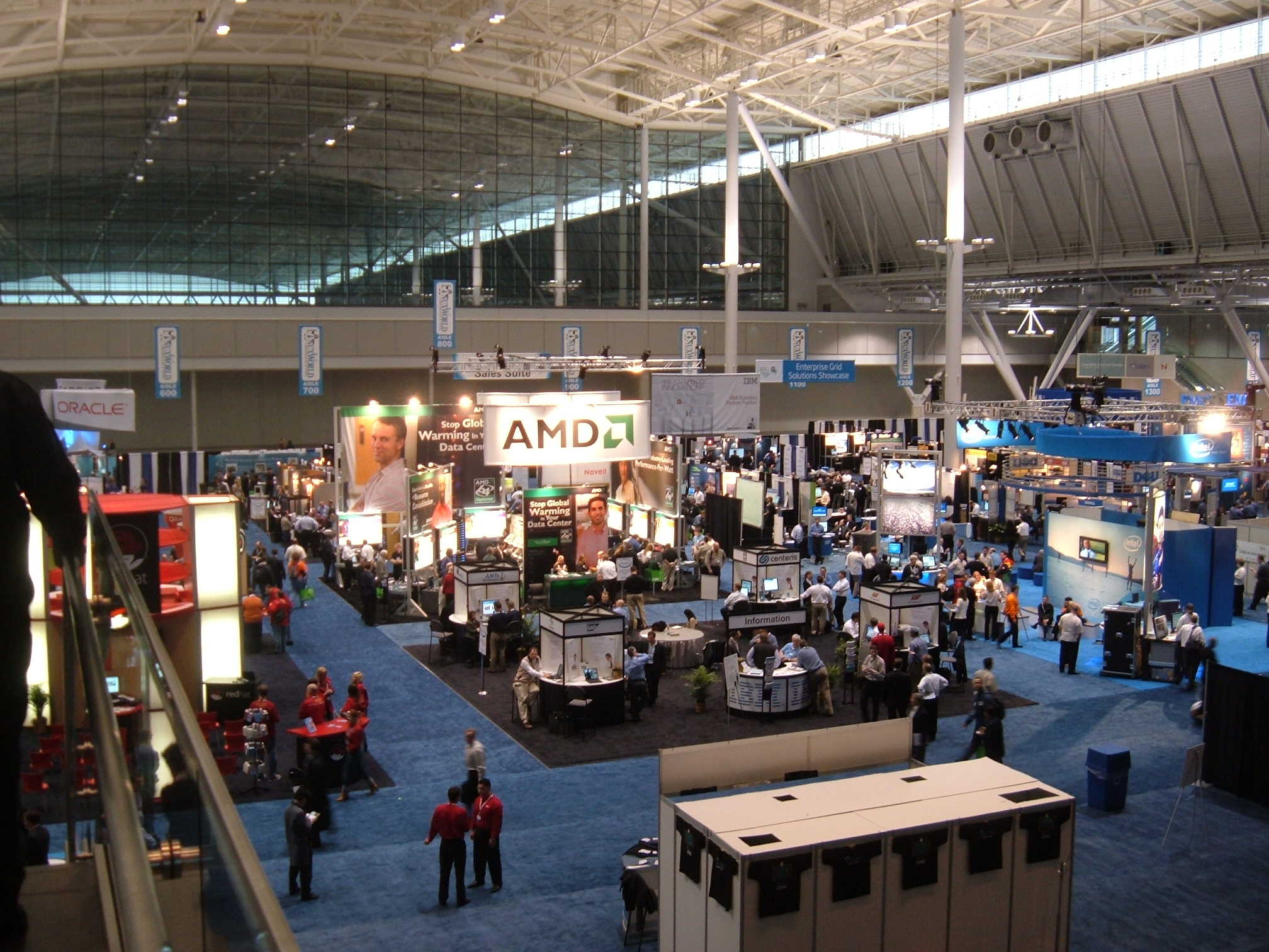 The Linuxworld trade show at the Boston Convention and Exhibition Center in April, 2006. I took this picture on April 4, 2006.--agr 13:03, 7 April 2006 (UTC)